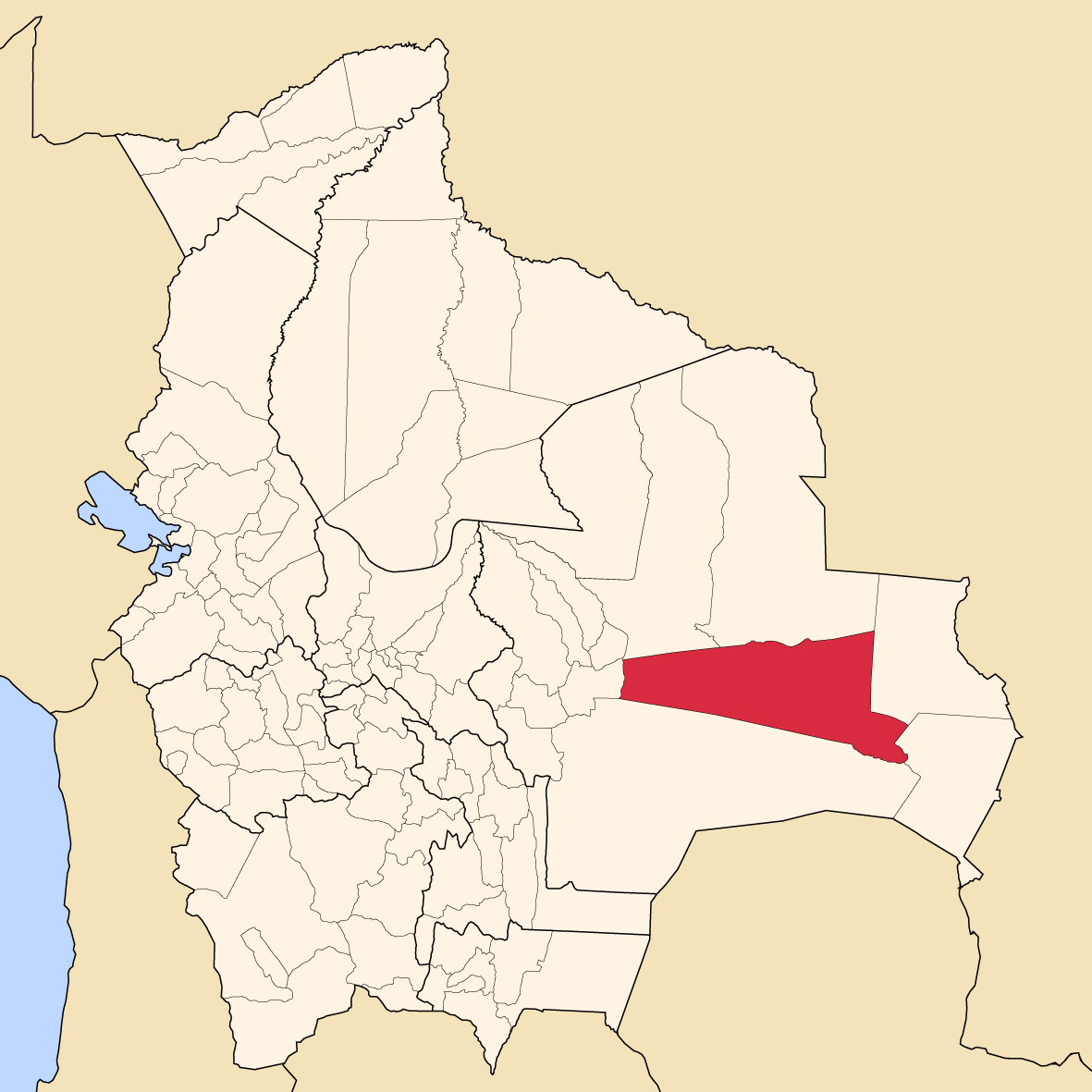 Map of Bolivia showing Chiquitos province, Santa Cruz